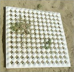 This reflective carpet was made of plastic for trapping and condensing soil vapor flux hence enabled in five months plant growth